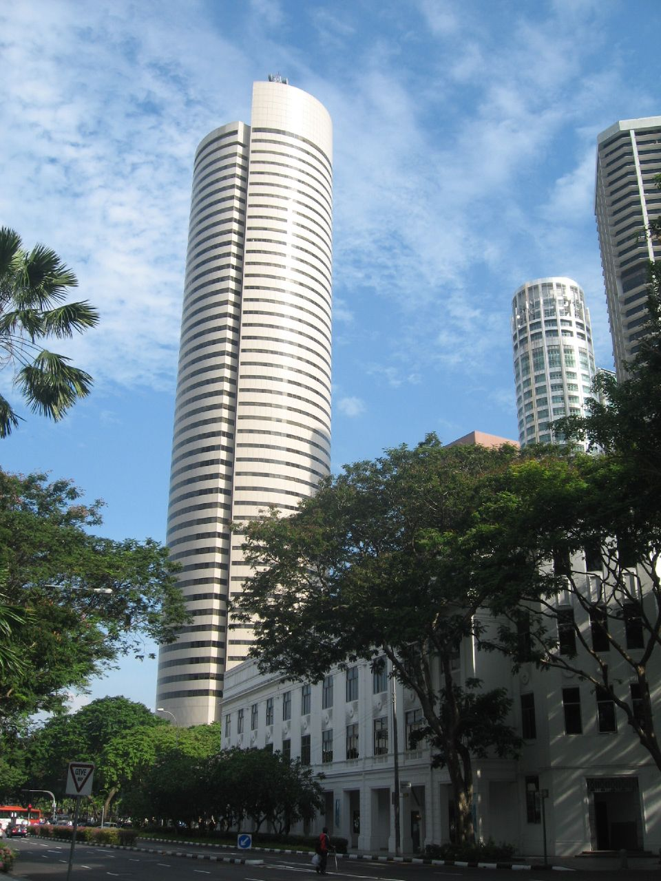 8 Shenton Way, formerly known as Temasek Tower, in Singapore. Completed in 1986 as The Treasury, it is one of the tallest buildings in the country at 252 m and one of the few buildings to house double-decker lifts.